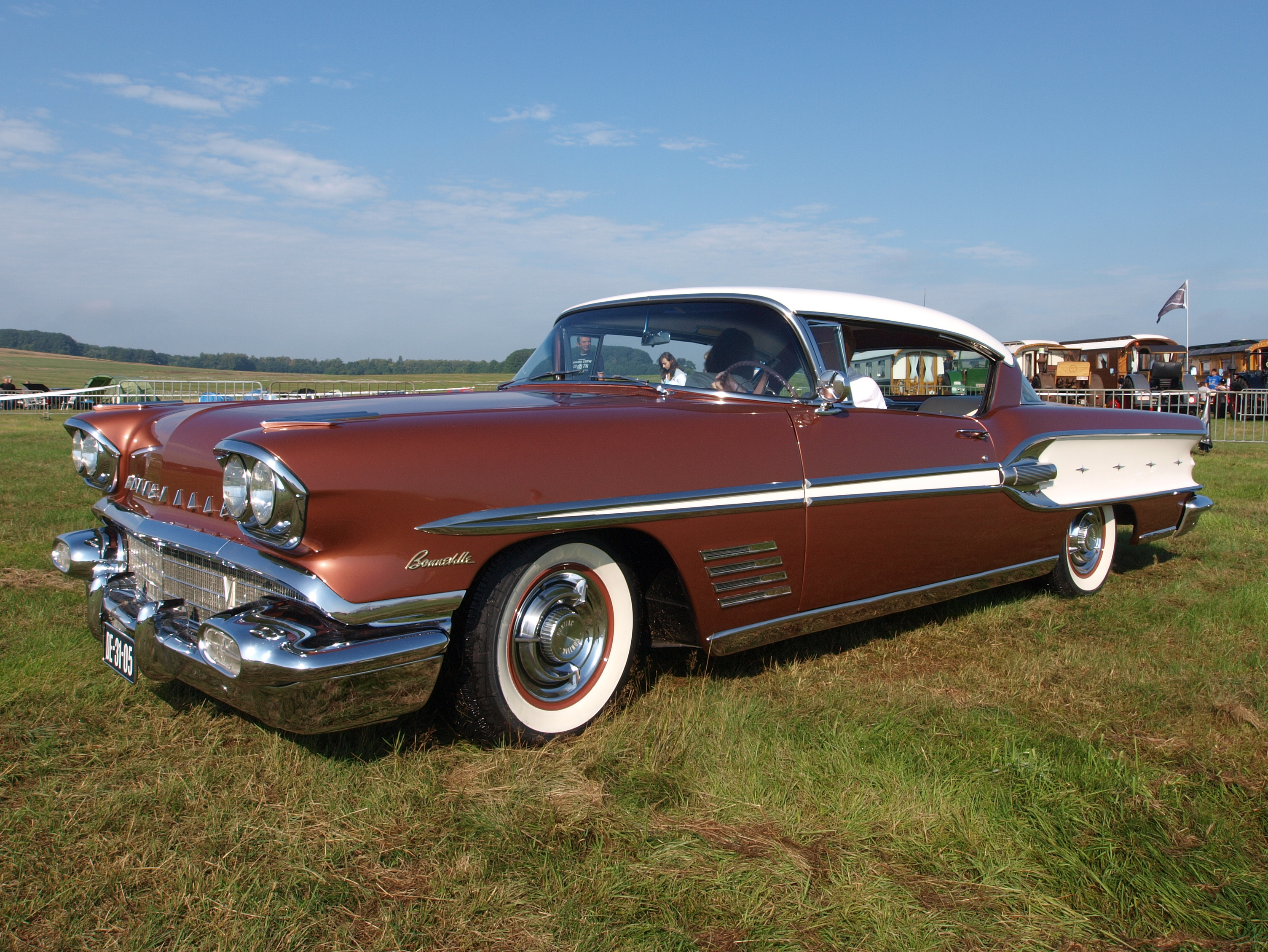 Photographed at the International Oldtimer Fly-In, Belgium.